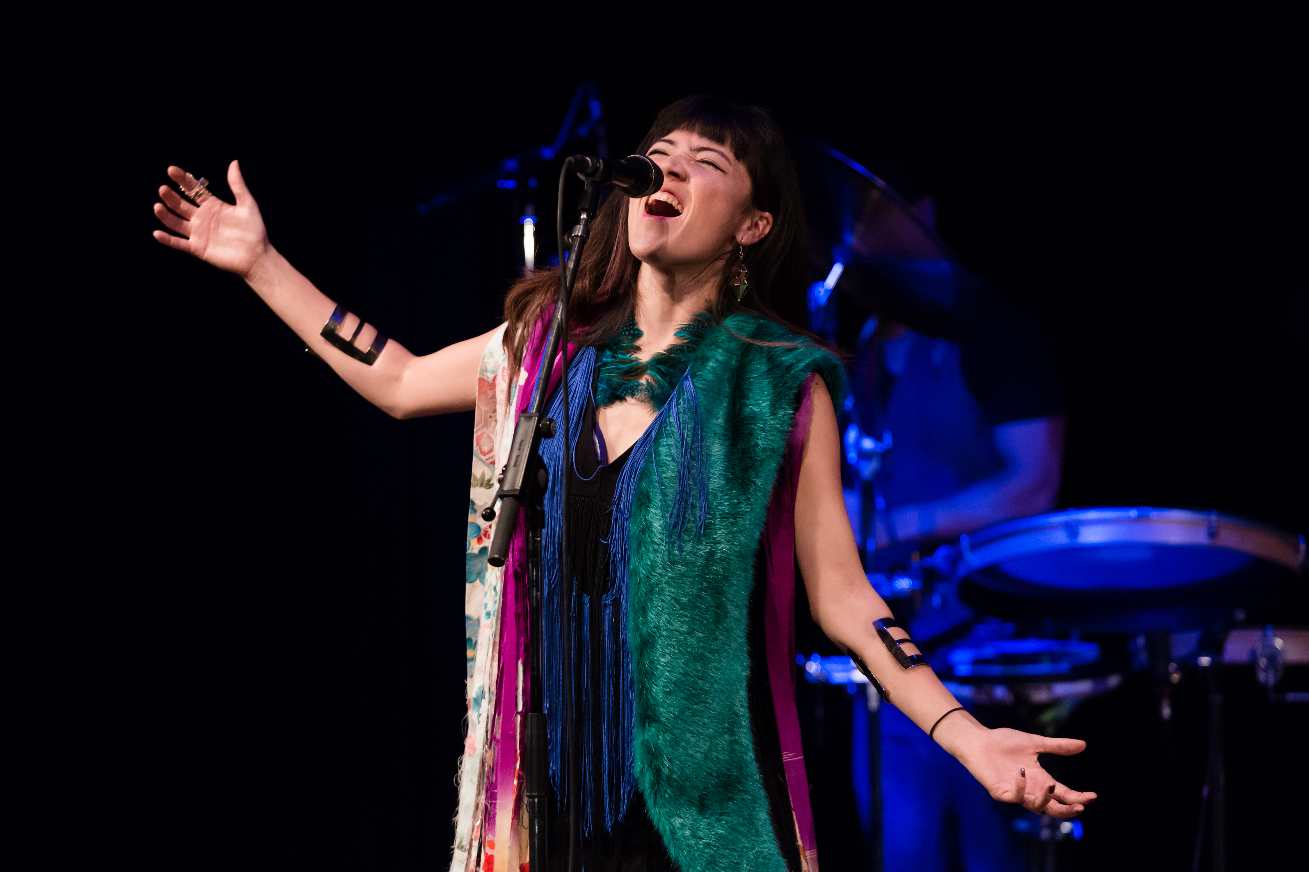 Maïa Barouh, concert at the festival Waves Vienna 2015 (Haus der Musik, Vienna, Austria).